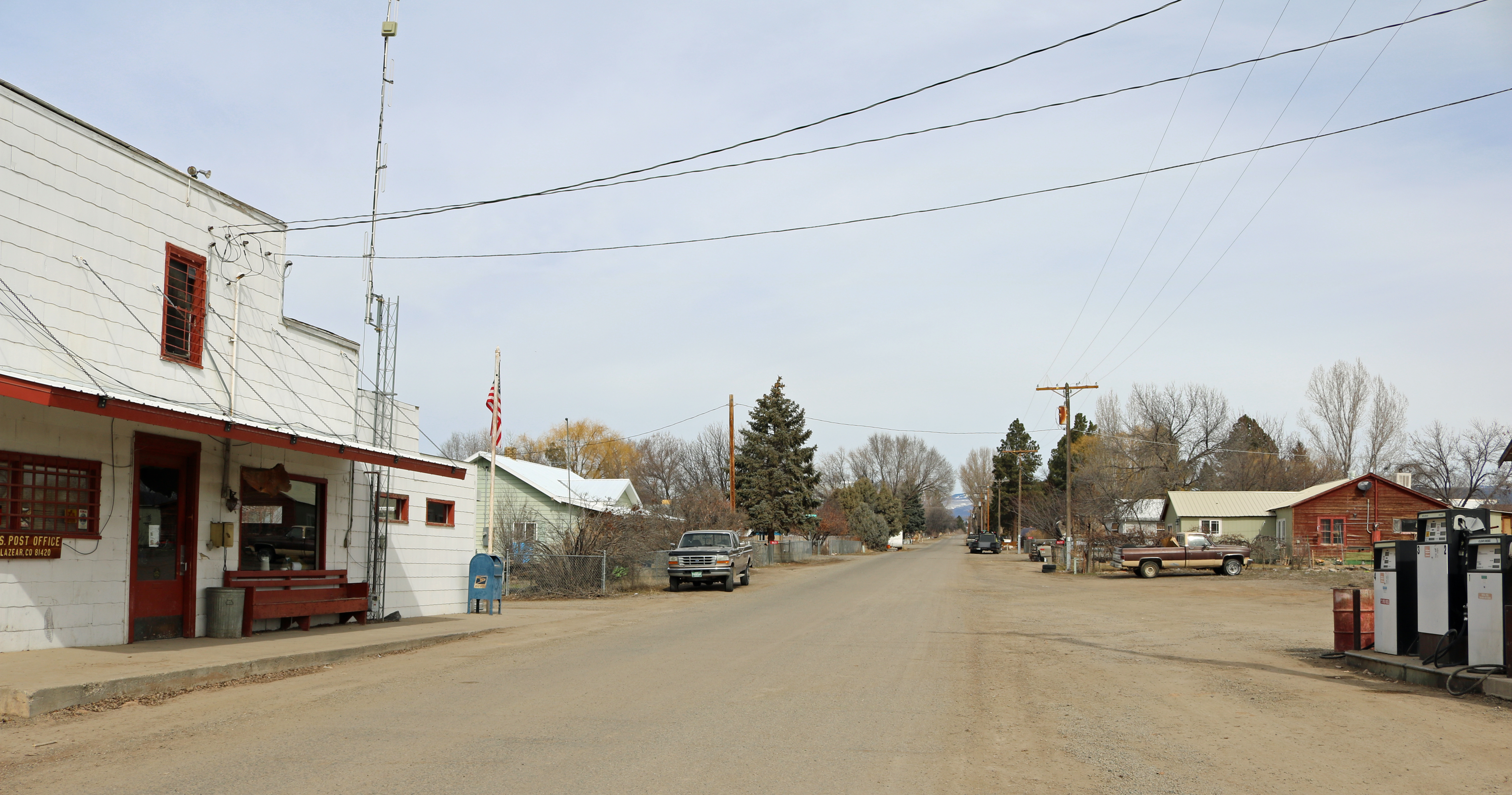 Lazear, Colorado in Delta County. The view shows part of the post office on the left, and the street is 3100 Road.